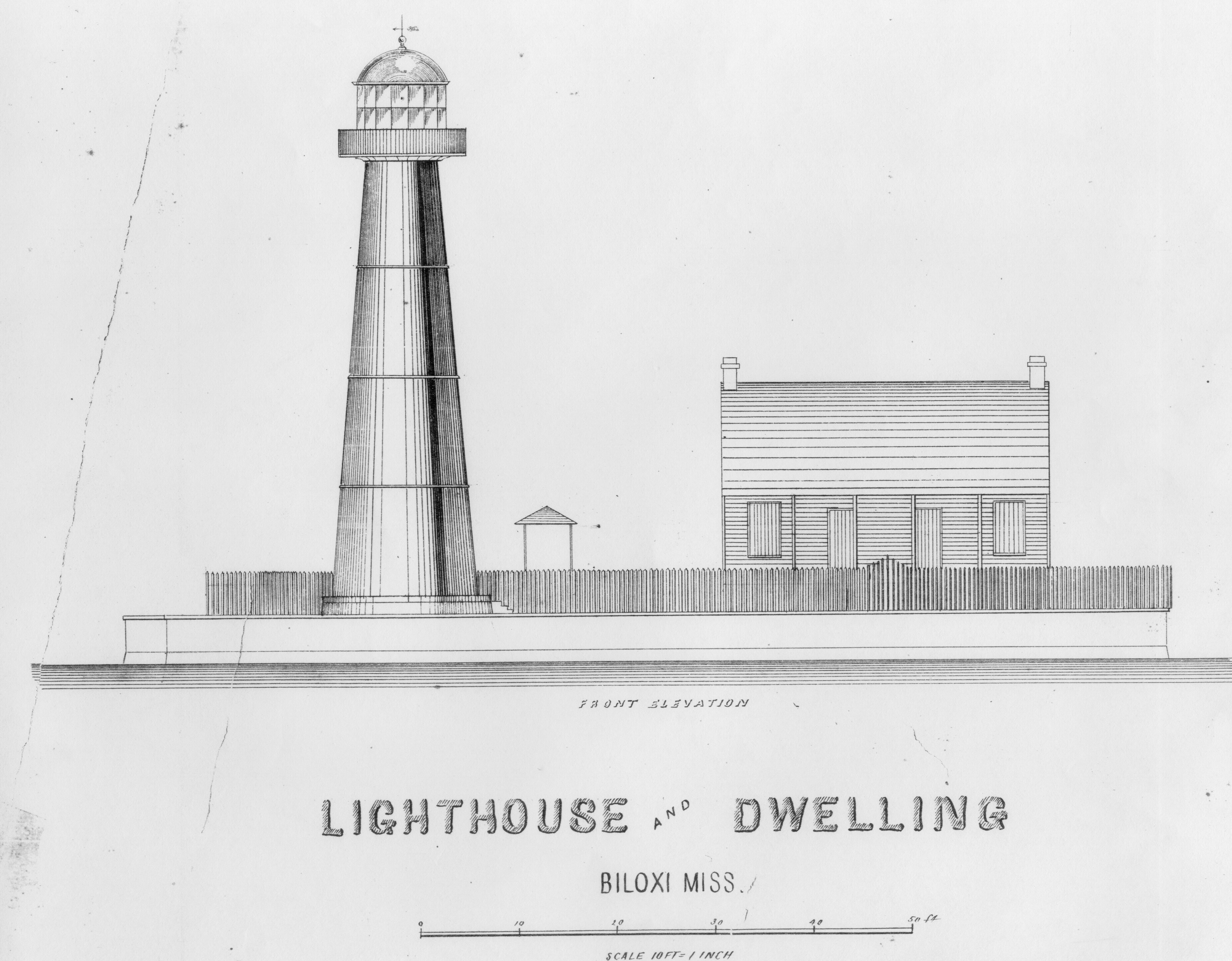 USCG architectural drawing of Biloxi Light. Caption: "Lighthouse and Dwelling [;] Front Elevation."; no date/drawing number, architect/draftsman unknown.